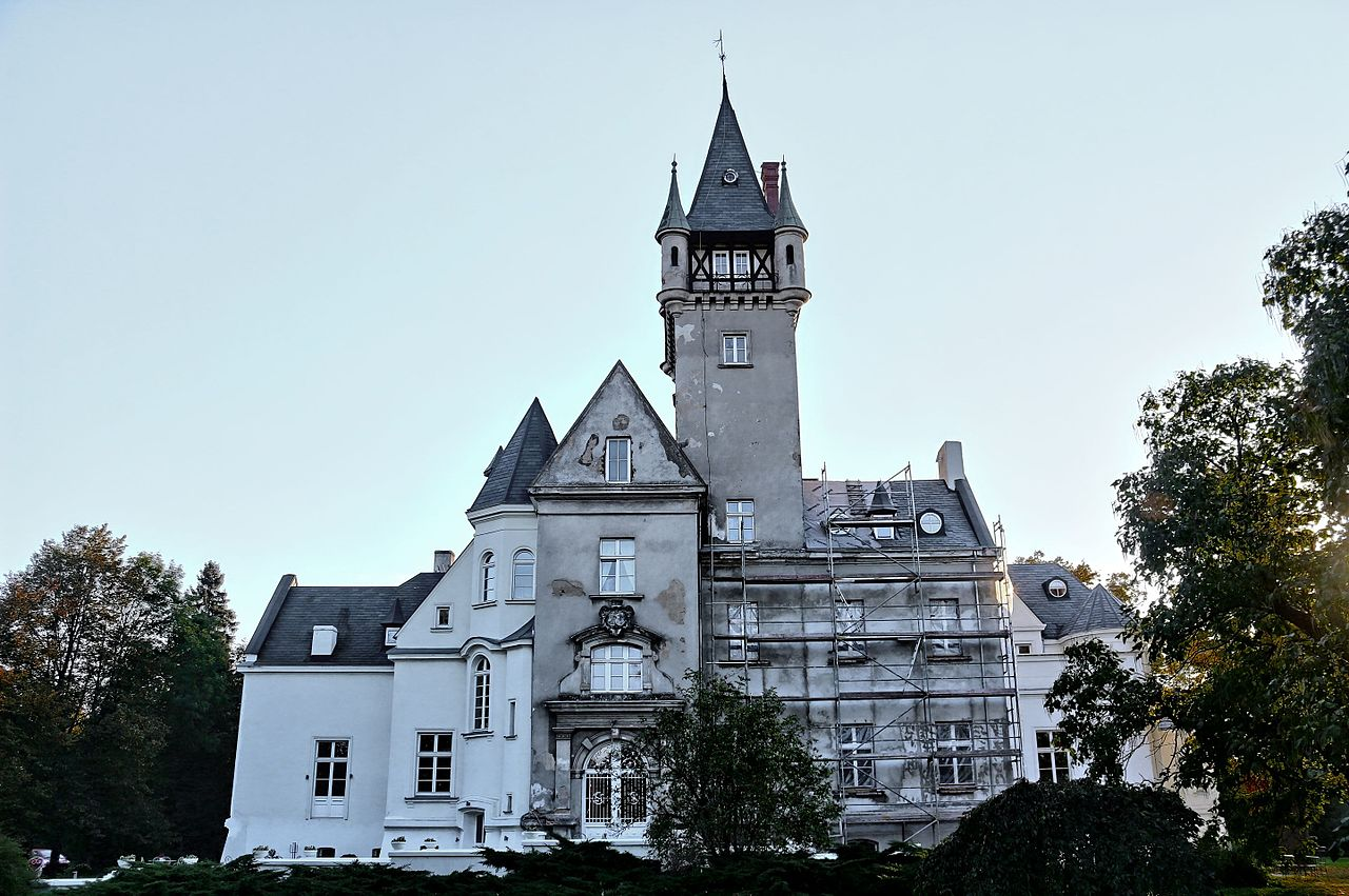 Osowa Sień, palace